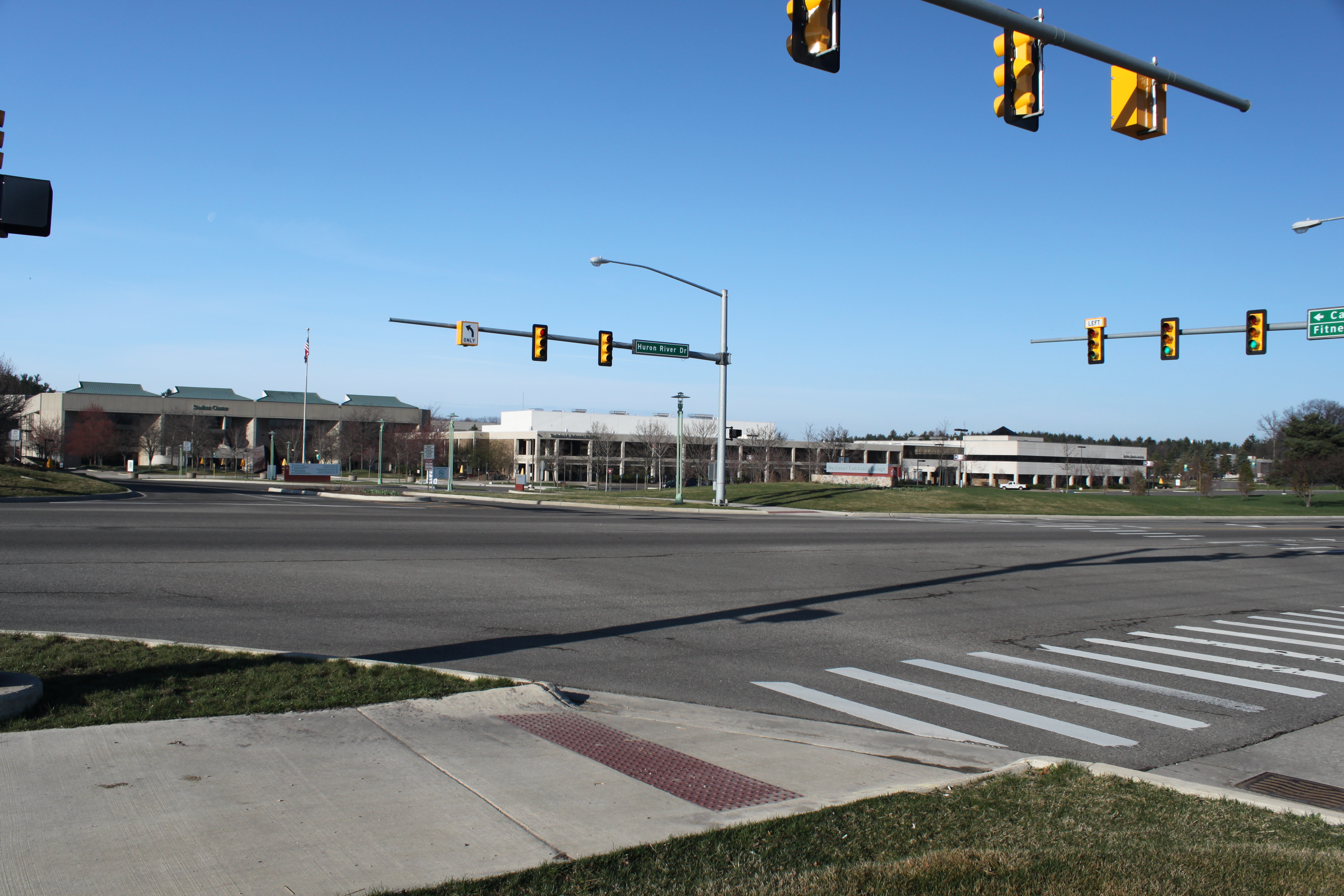 Washtenaw Community College Student Center, Technical & Industrial Bldg. & Business Education Bldg. seen from Huron River Dr.